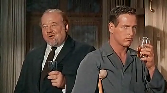 Screenshot of Burl Ives and Paul Newman from the trailer for the film Cat on a Hot Tin Roof (film)